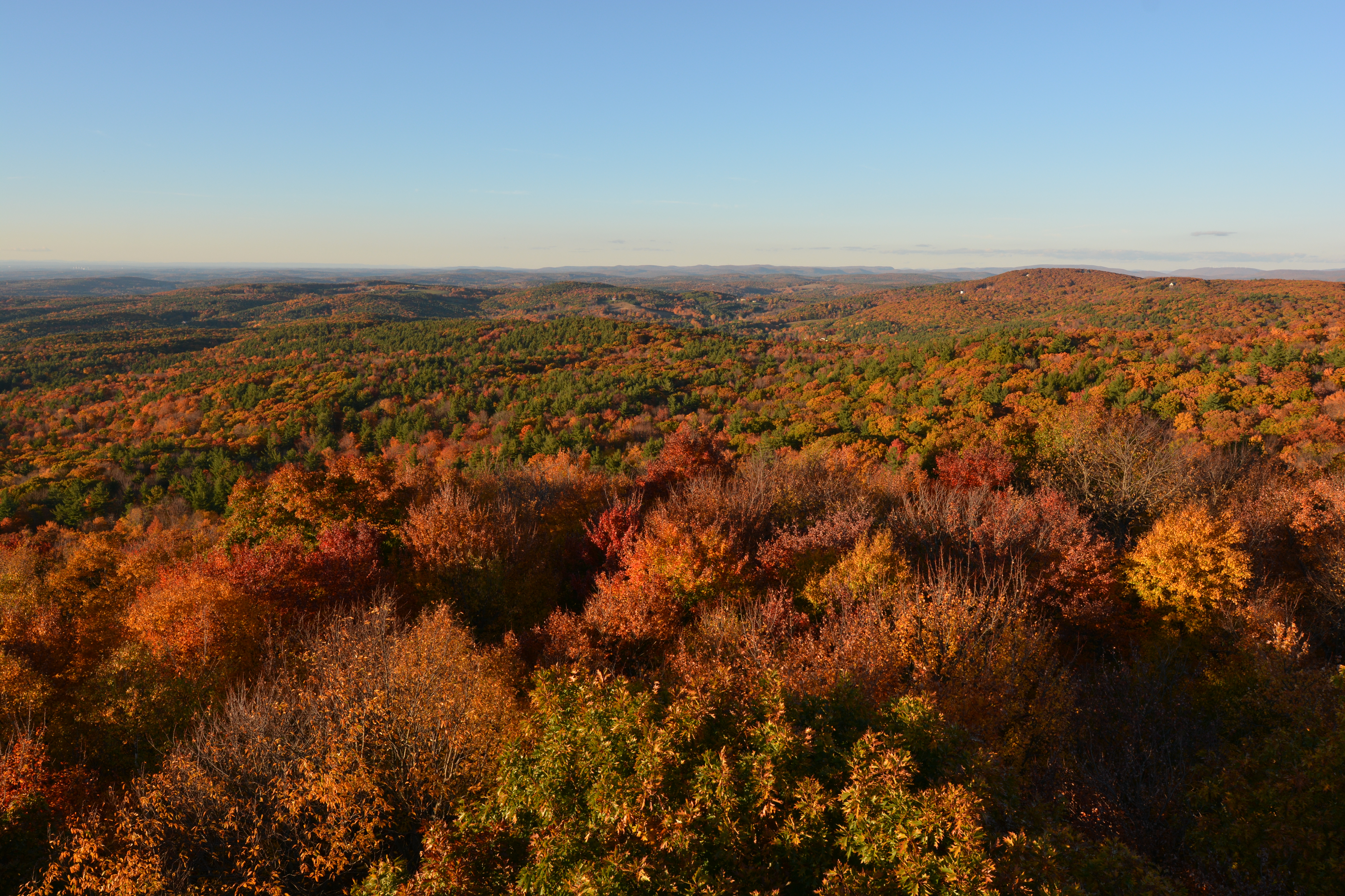 View looking northeast from the fire lookout tower in Beebe Hill State Forest, Austerlitz, New York.